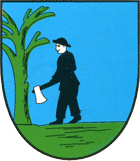 Jarząbkowice COA